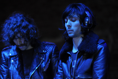 Xavier de Rosnay & Gaspard Auge of the French electro duo Justice.